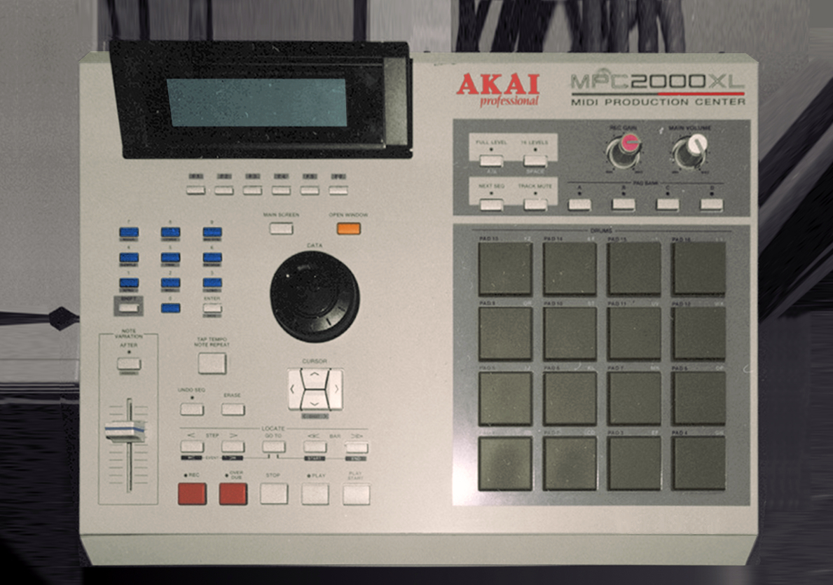 my favorite tool for making music